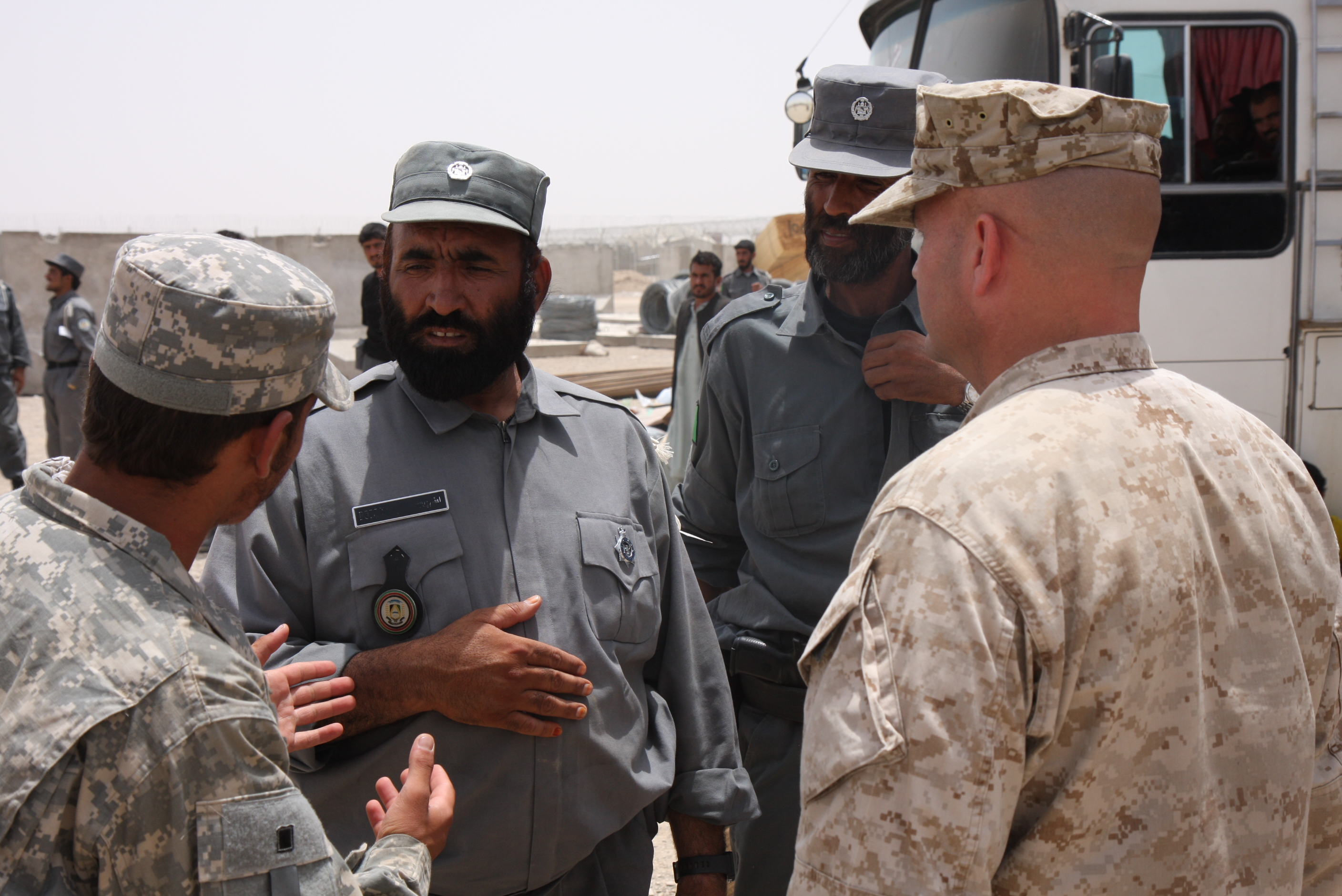 Afghan National Police commander chief of police Musa Qala Koka meets with U.S. Marine Corps Lt. Col. Richard Hall, commanding officer of 2nd Battalion, 7th Marine Regiment, June 9, 2008, in Camp Bastion in the Helmand Province of Afghanistan. 2nd Battalion, 7th Marine Regiment based out of Marine Air Ground Combat Center 29 Palms.